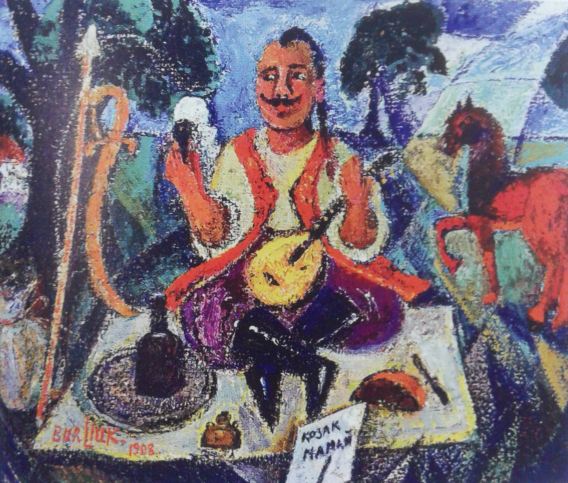 Painting "Cossack Mamay", 1912